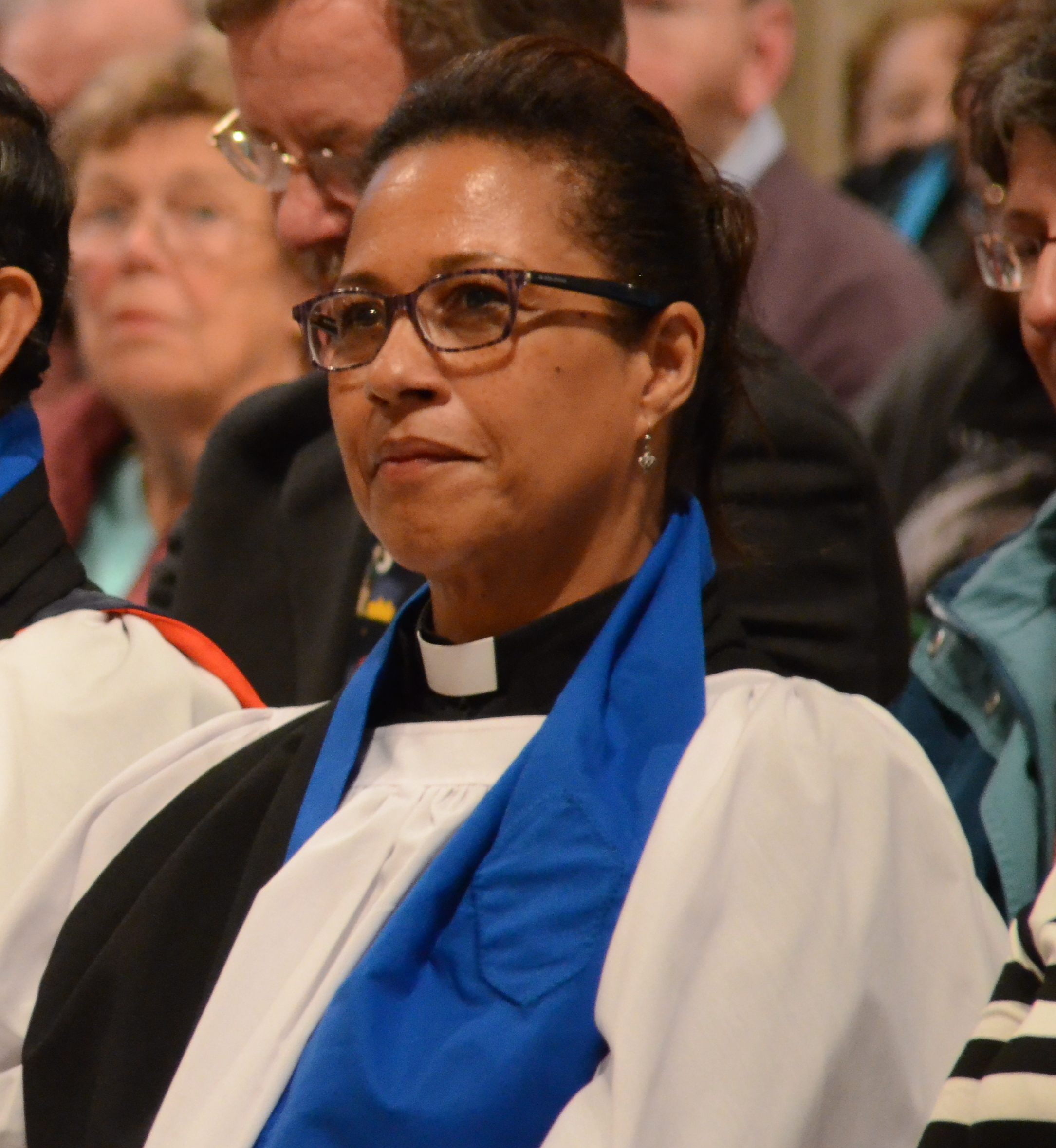 Robin King (Archdeacon of Stansted), John Perumbalath (Archdeacon of Barking), Mina Smallman (Archdeacon of Southend)